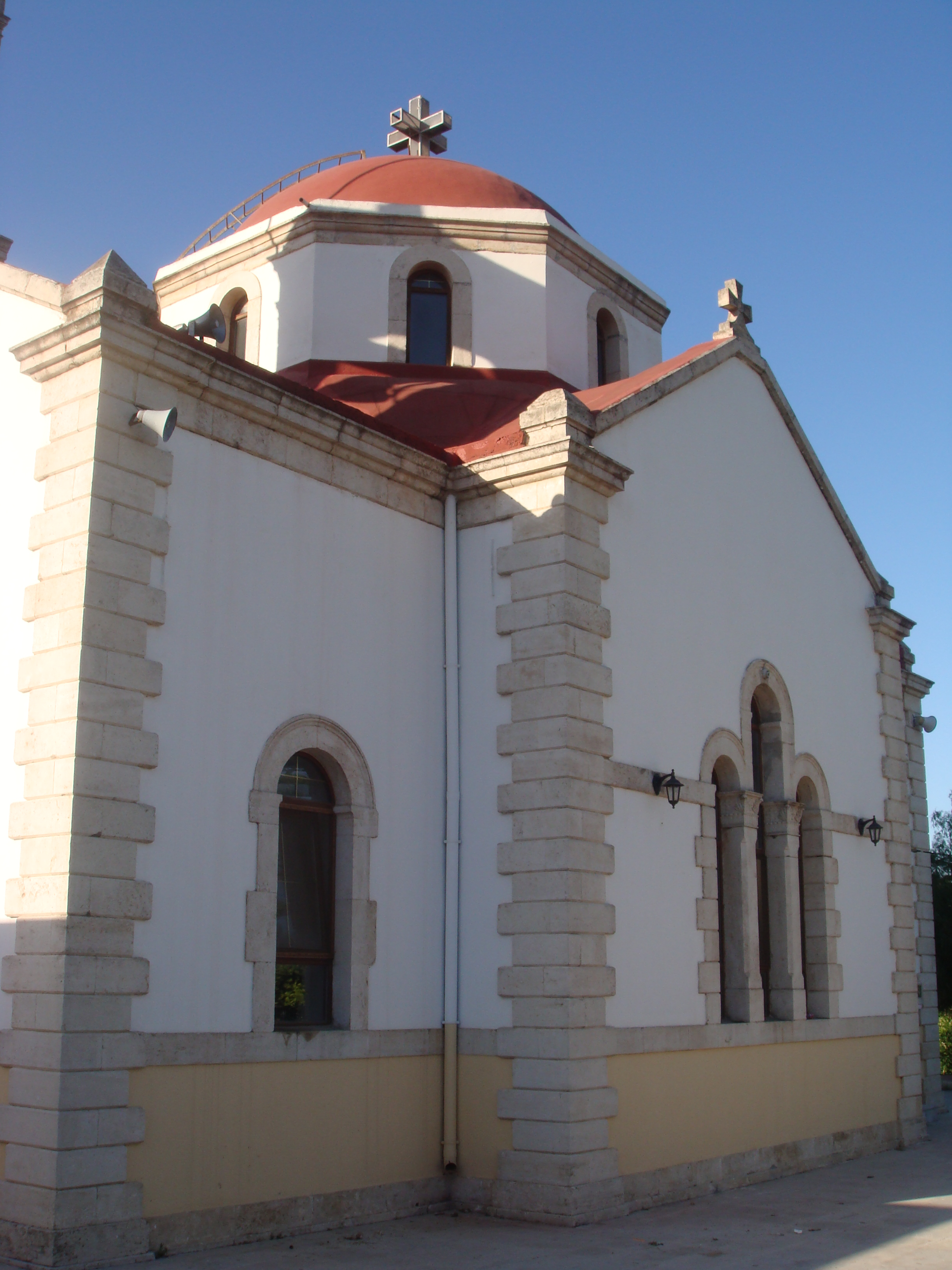 The church of Evangelismos tis Theotokou in Melesses, Iraklion Prefecture.